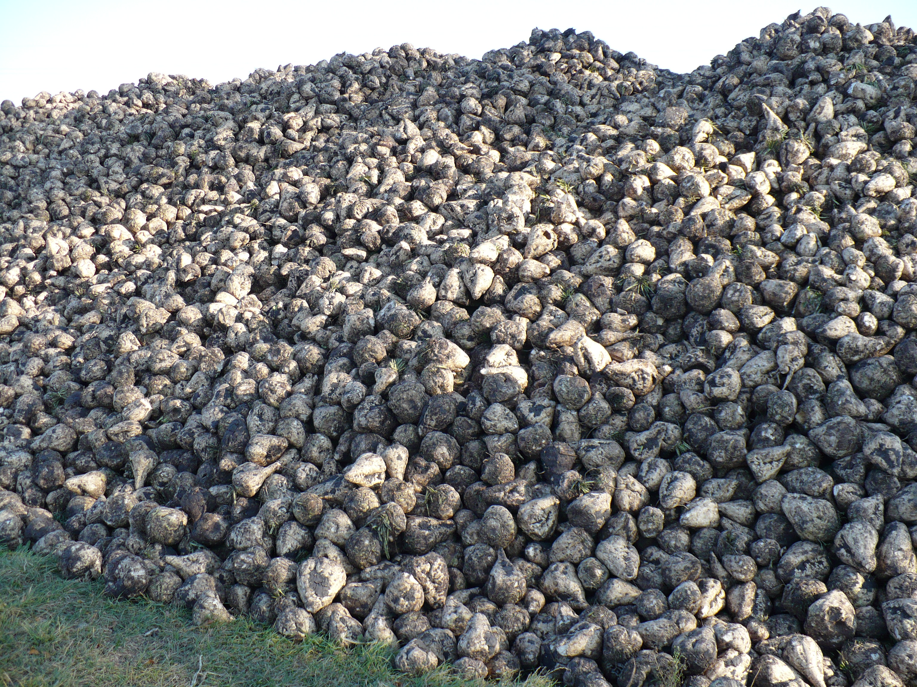 Sugar beets in october 2007. Near Clermont Ferrand, France